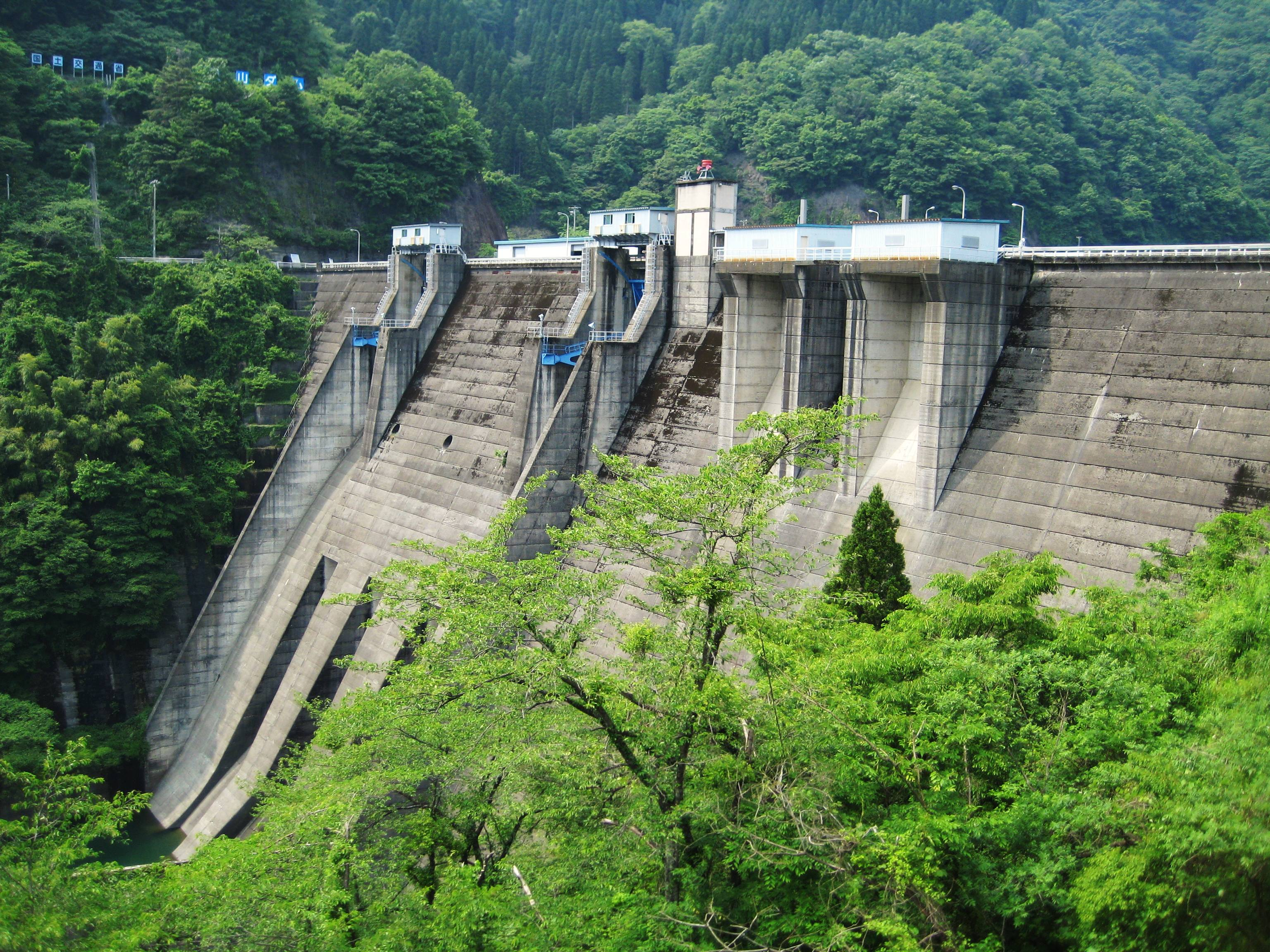 Yokoyama Dam.